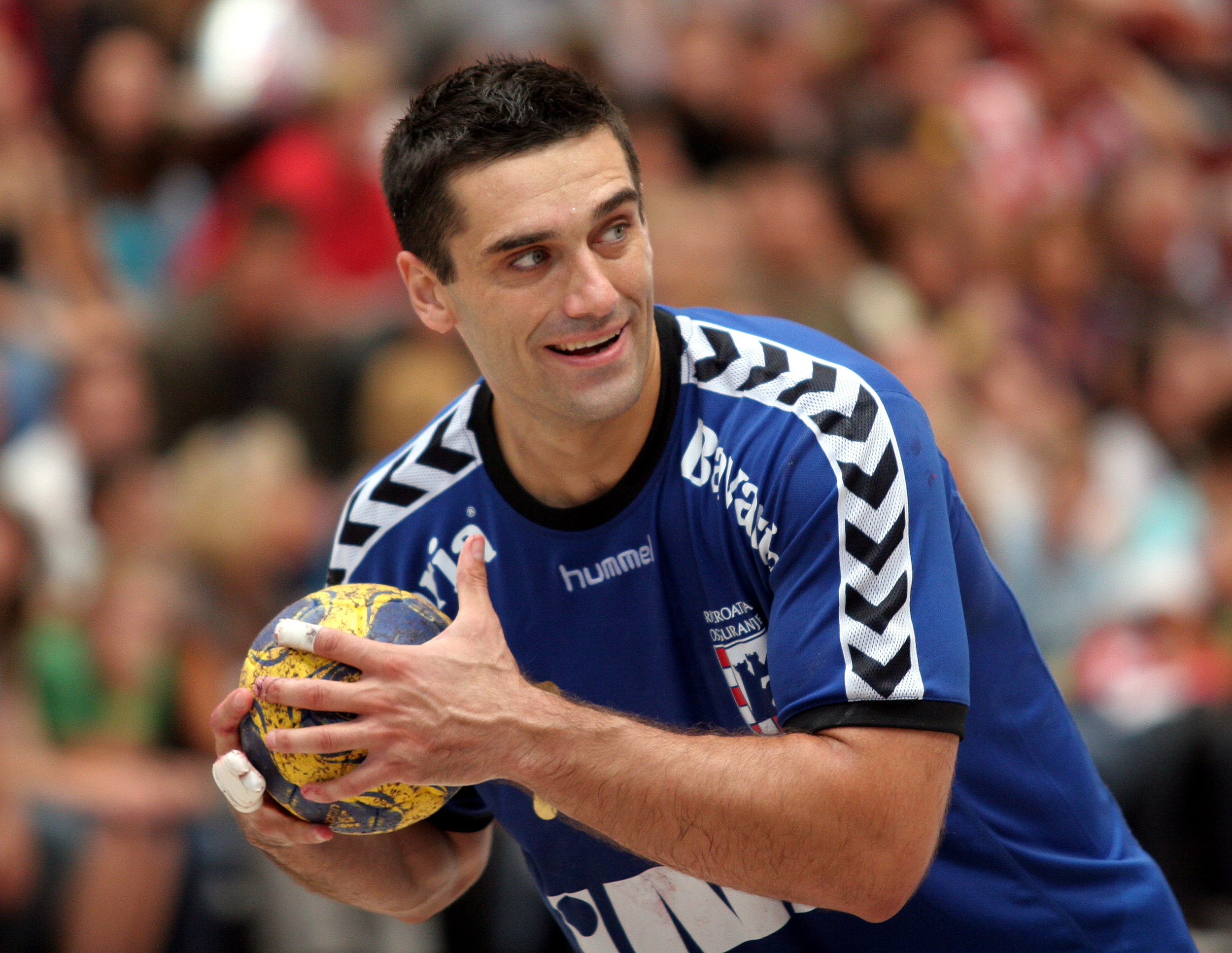 Kiril Lazarov, Macedonian handball player, playing for RK Zagreb, on August 22nd, 2009 in Ehingen (Germany), during the Schlecker Cup 2009.